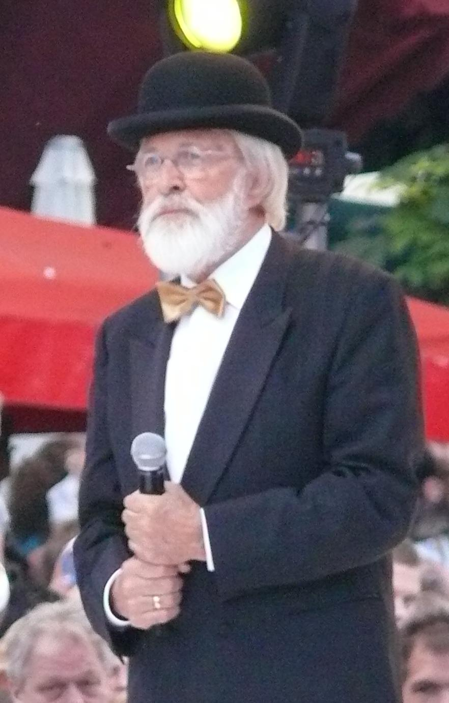 Father Abraham (Pierre Kartner) at the TROS Muziekfeest op het plein in Deventer, The Netherlands